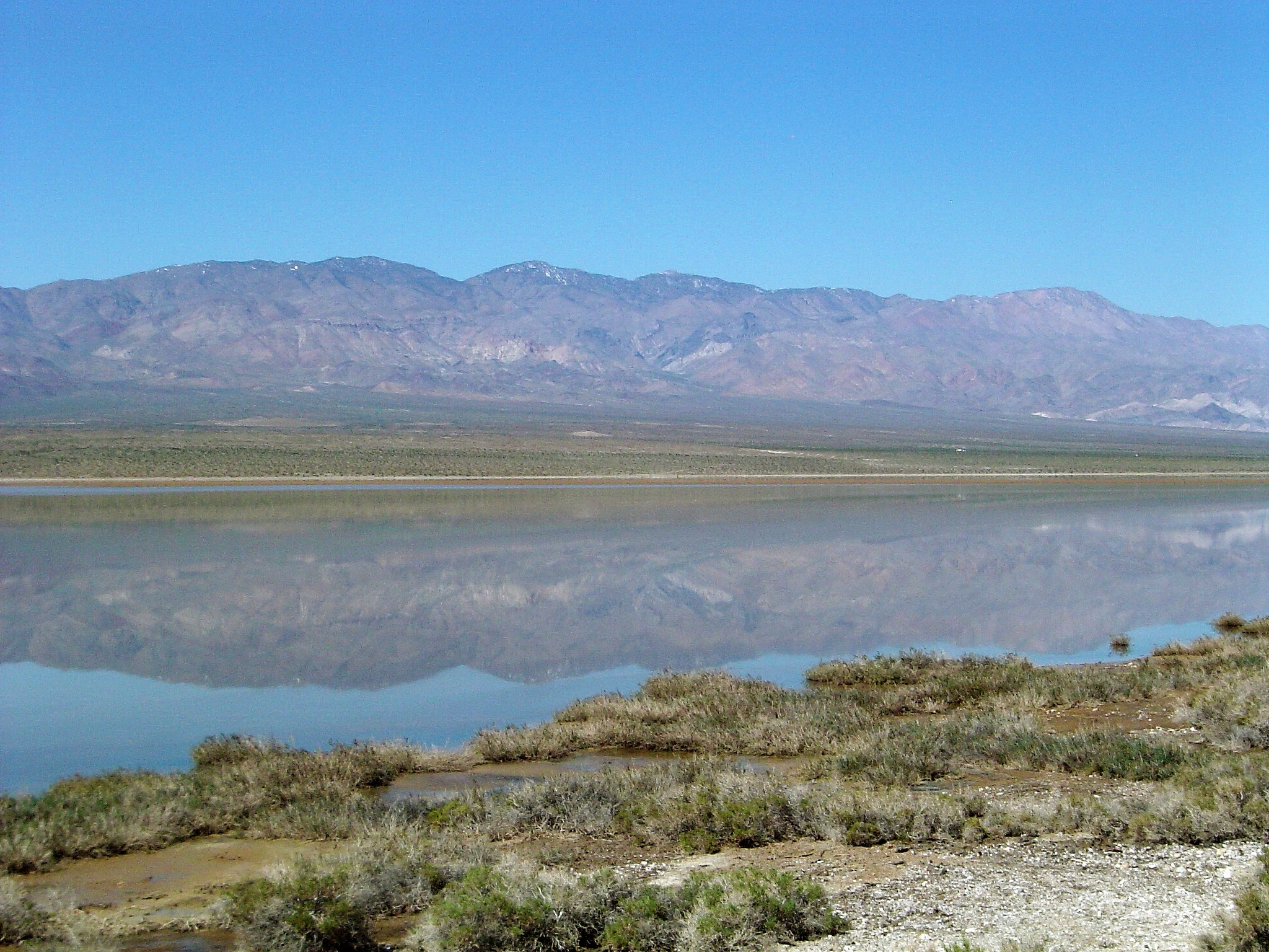 Heavy rains in 2005 caused an ephemeral lake in Panamint Valley, California. View near the ghost town of Ballarat, California on March 15th of 2005.